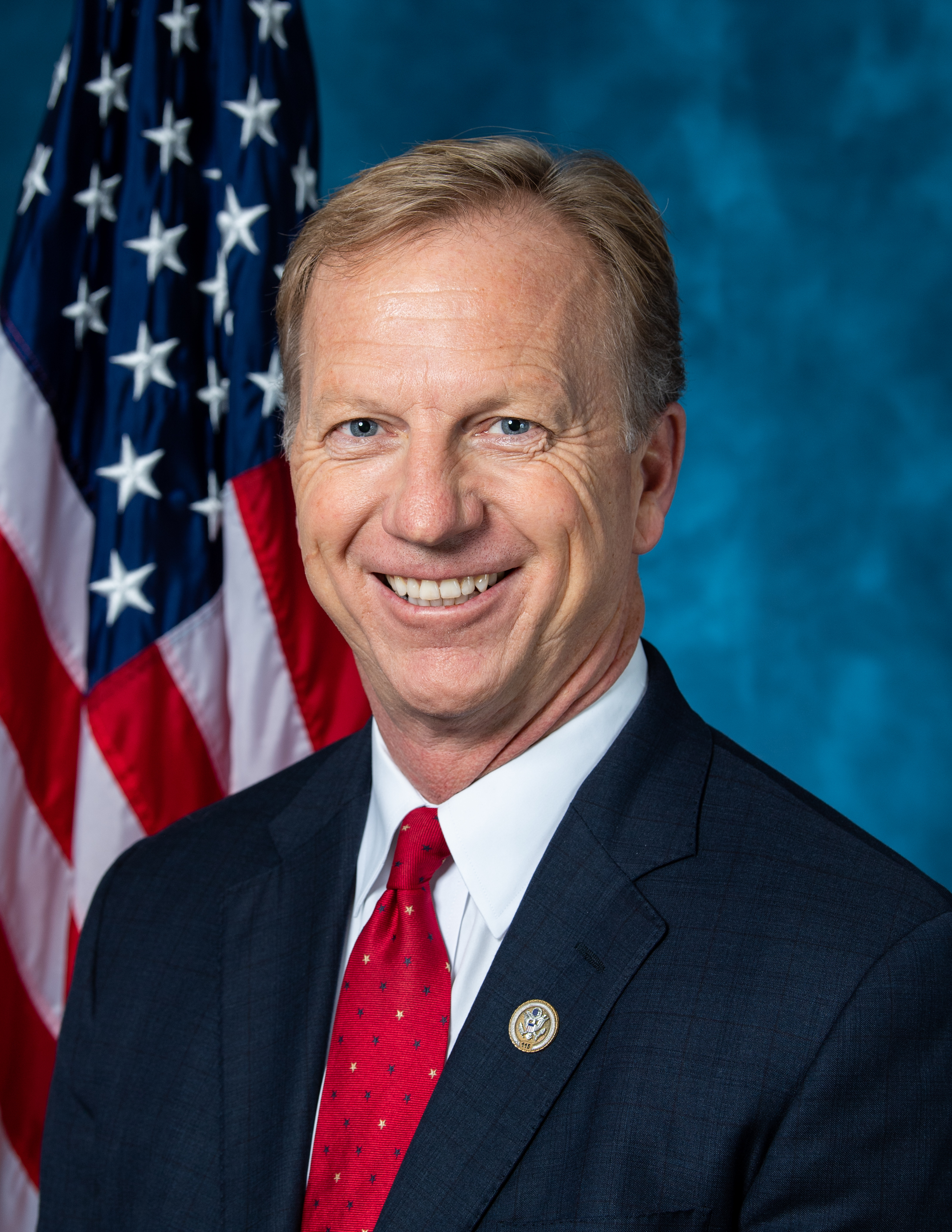 Official photo of freshman Rep. Kevin Hern of Oklahoma's 1st district from the 116th Congress.